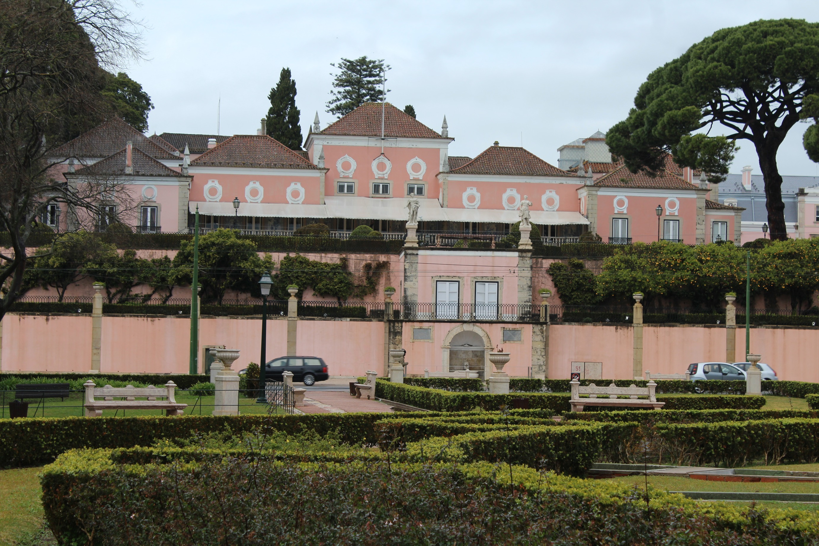 Lisbon, Belém Palace